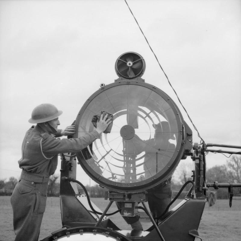 The British Army in the United Kingdom 1939-45 A soldier cleaning the glass of a searchlight at an anti-aircraft battery at Minley Lodge, Minley, Hampshire, 24 May 1941.